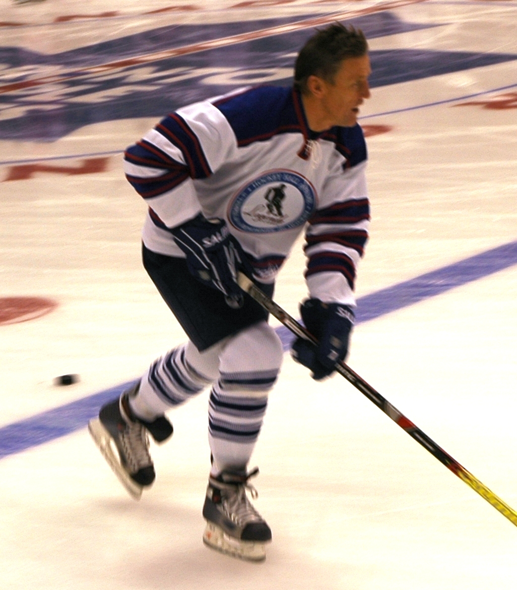 Borje Salming played with the All-Star Legends 2008 in Toronto